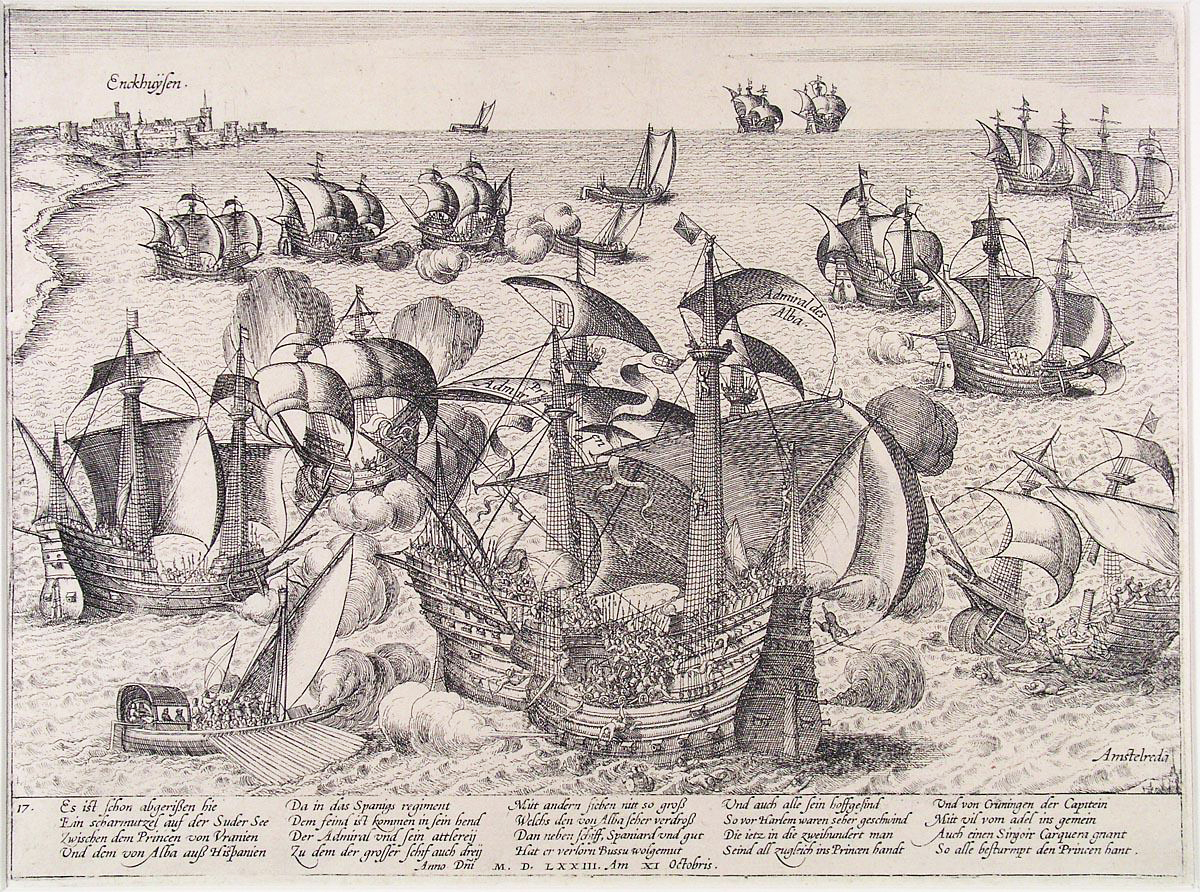 Battle of the Zuiderzee (IJsselmeer) in 1573. Etching. Rotterdam, Museum Boijmans Van Beuningen (inv.no. BdH 19783 (PK)).